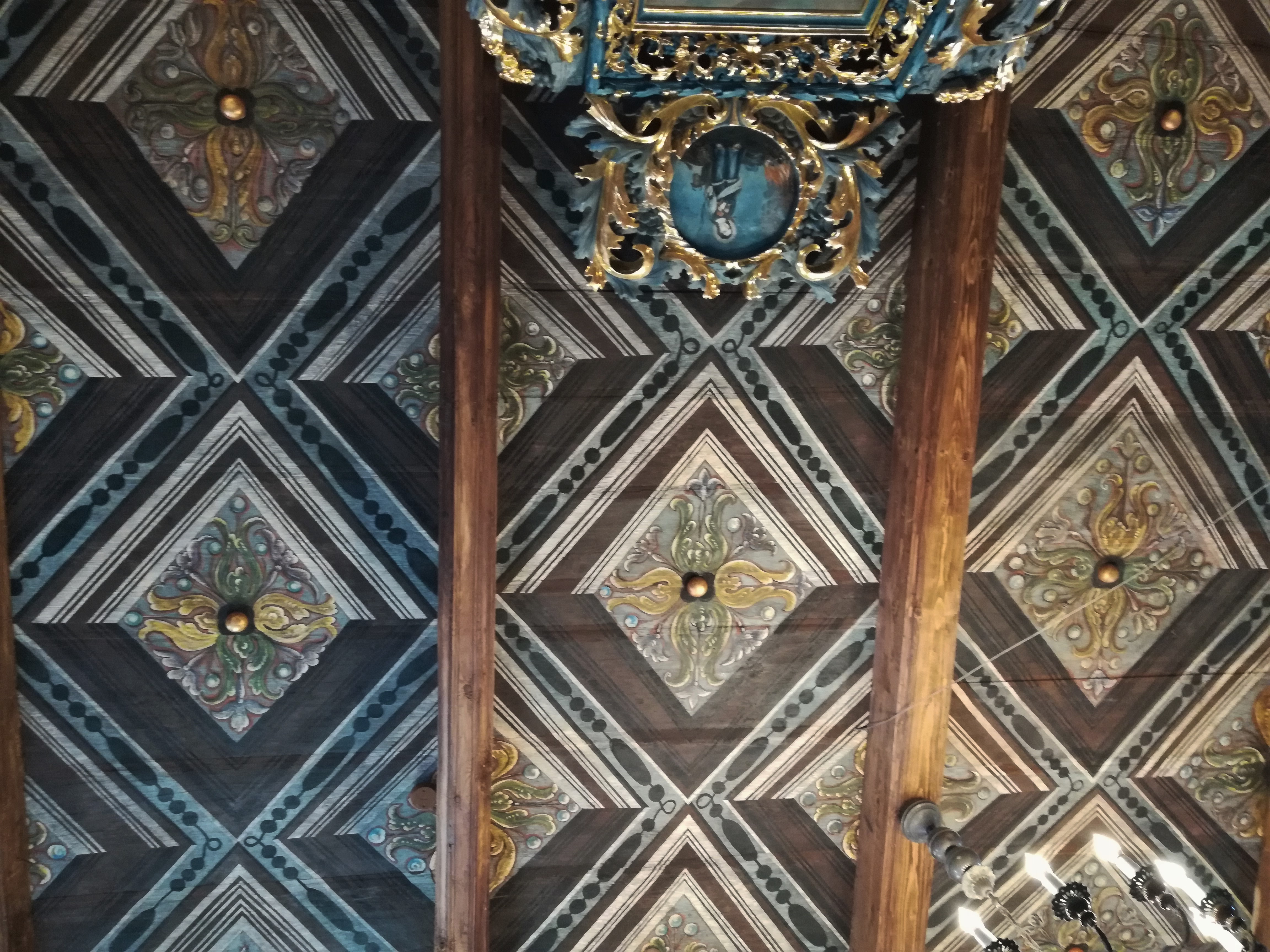 Church of Saint. Stanisław Biskupa in Chotelek Zielonym - a beam ceiling with preserved Renaissance polychrome from the 16th century, depicting coffers with rosettes.